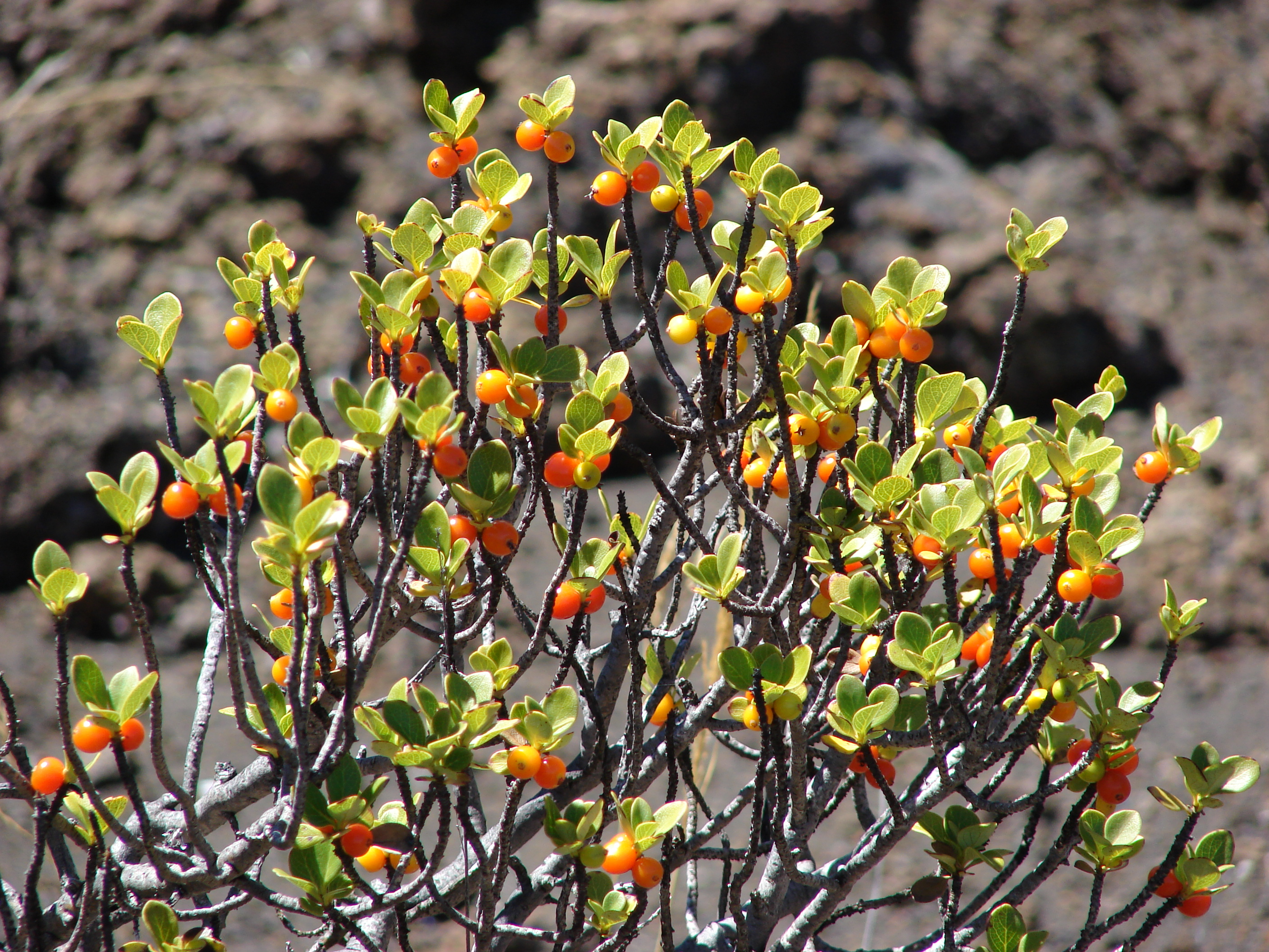 Coprosma montana (fruit). Location: Maui, Red Flow Haleakala National Park